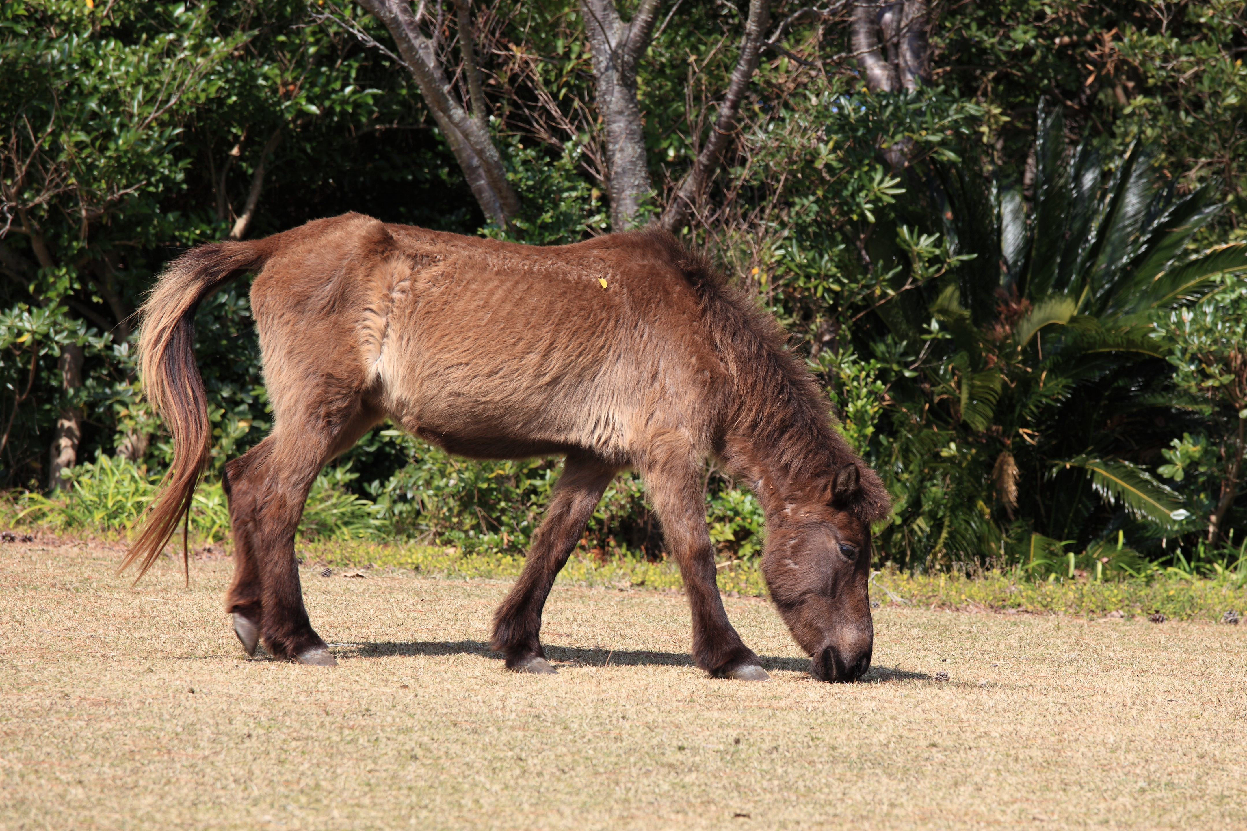 Tokara Pony Ibusuki-shi(city) Kagoshima-ken(Prefecture), Japan